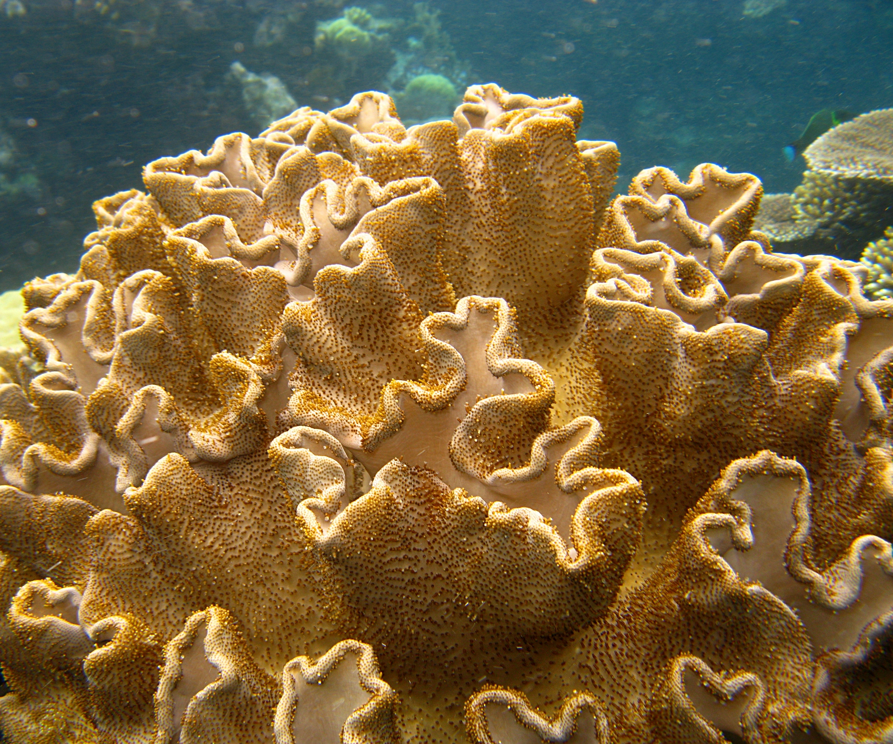 Sarcophyton in Flynn Reef, part of the Great Barrier Reef, near Cairns, Queensland, Australia.